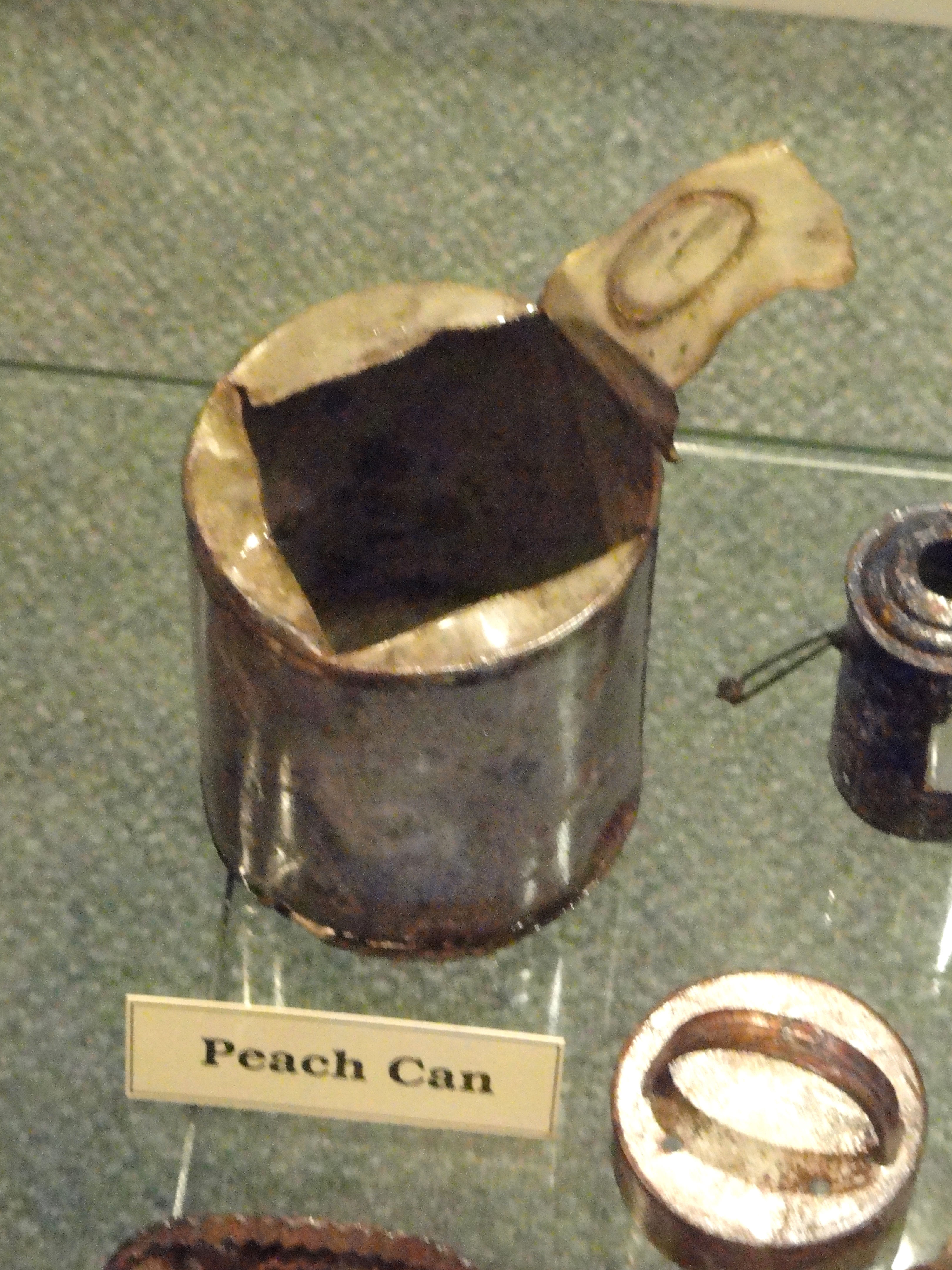 Arabia Steamboat Museum, 400 Grand Boulevard, Kansas City, Missouri, USA. The ship Arabia sank in the Missouri River on September 5, 1856, and was rediscovered in 1988.